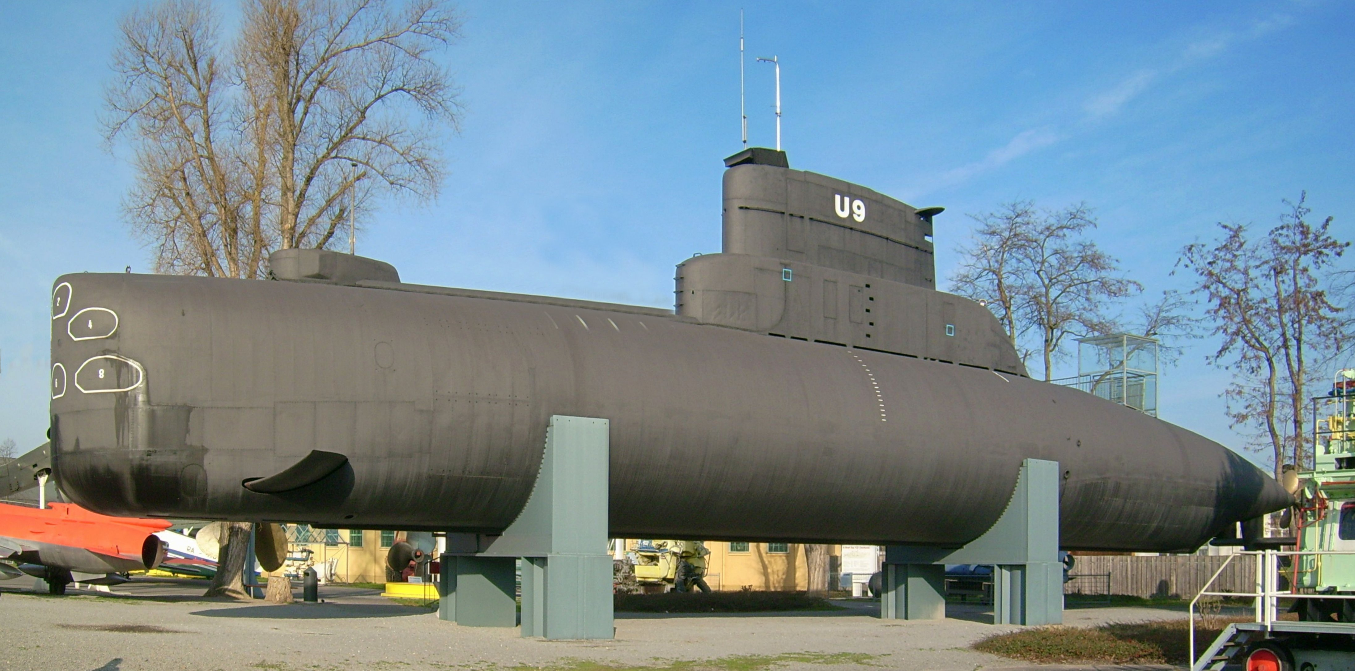 German museum ship U-9, a Type 205 submarine now placed in Technikmuseum Speyer